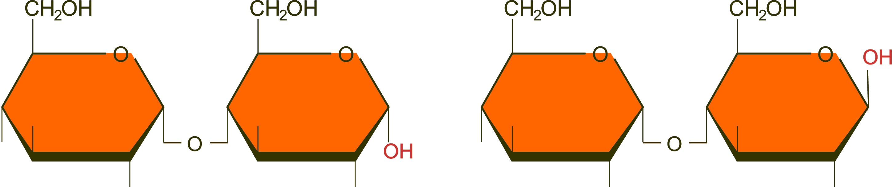 maltose anomers jpg